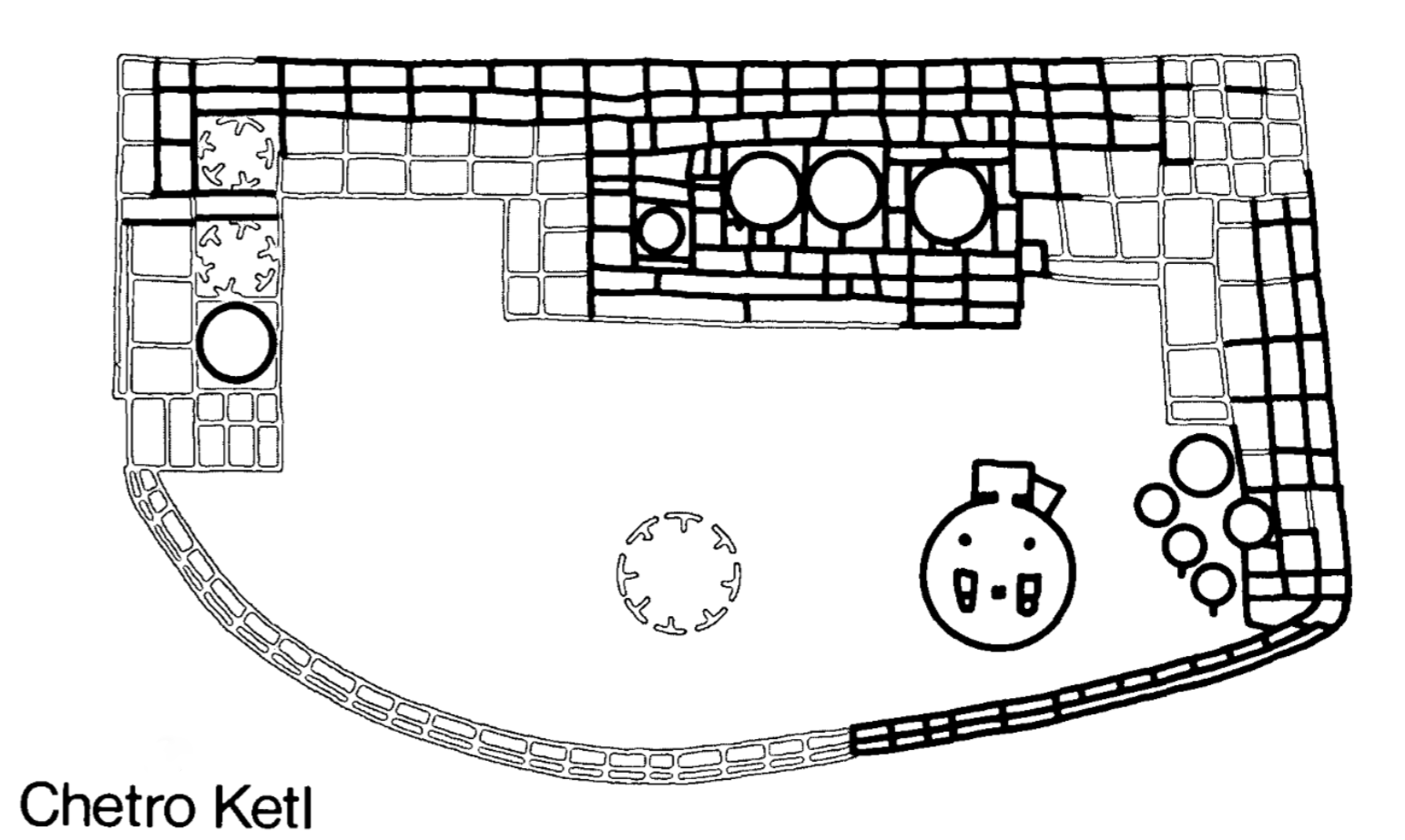 A National Park Service sitemap of Chetro Ketl